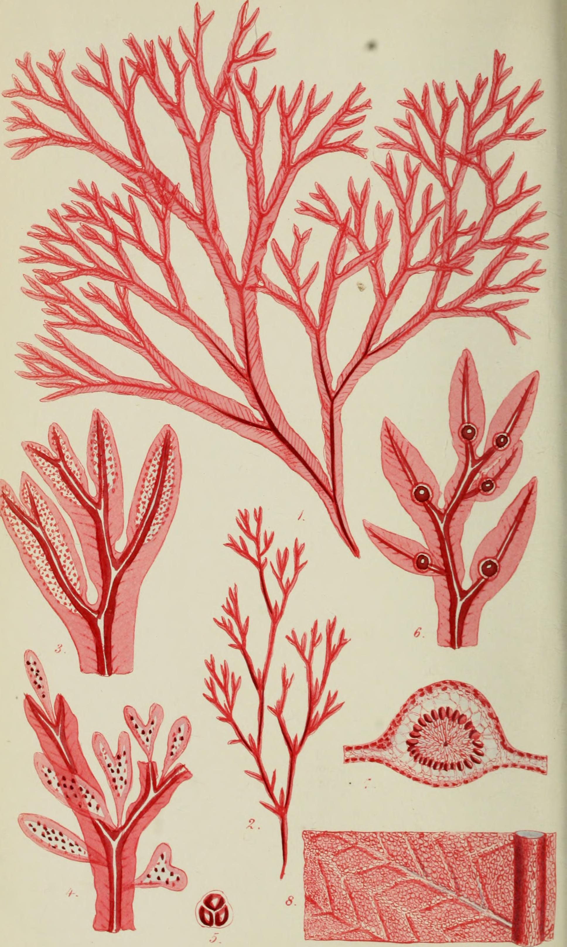 Title: Phycologia Britannica, or, A history of British sea-weeds : containing coloured figures, generic and specific characters, synonymes, and descriptions of all the species of algae inhabiting the shores of the British Islands Year: 1846 (1840s) Authors: Harvey, William H. (William Henry), 1811-1866 Harvey, William H. (William Henry), 1811-1866. History of British sea-weeds Subjects: Marine algae Publisher: London : Reeve Brothers Text Appearing Before Image: piatf a^XLvn Text Appearing After Image: KH.H.ad.eblith. K.B.A Jl.ii;. Ser. RiroDosPERME^. Fara. Belesseriere. Plate CCXLVII. DELESSERIA ALATA, Lamour. Gen. Char. Frond rose-red, flat, membranaceous, with a percurrent mid-rib. Fructification of two kinds, on distinct individuals; 1, sphericaltubercles (coccidia) immersed in the frond, and containing a globulartuft of angular spores; 2, tetraspores, forming defined spots in thefrond, or in leaf-like processes. Delesseria (Lamour),—in honourof Baron B. Delessert, a distinguished botanist and patron of Botany. Delesseria alata ; stem dichotomous, much branched, winged tliroughoutwith a narrow, membranous lamina wliich is pennate-nerved; tu-bercles rising from the midrib; tetraspores in sori occupying theapices of the frond, or in proliferous leaflets. Delesseria alata, Lamour. Ess. p. 124. Lyngb. Hyd. Ban. p. 8. t. 2. Jg.Sp. Alg. vol. i. 178. Ag. Syst. p. 250. Hook. Fl. Scot, part 2. p. 100.Grev. Ft. Edin. p. 293. (xrev. Alg. Brit. p. 73. Hook. Brit. Fl. vol. ii.p. 285. TFyat